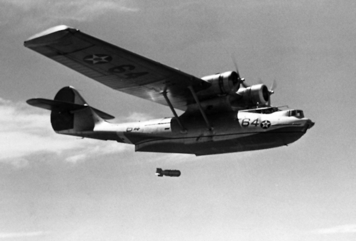 An early U.S. Navy Consolidated PBY Catalina dropping a depth charge. Note: If the dating, 5 June 1942, is correct, then this PBY was used as a training plane, because it still wears the colourful pre-war markings.